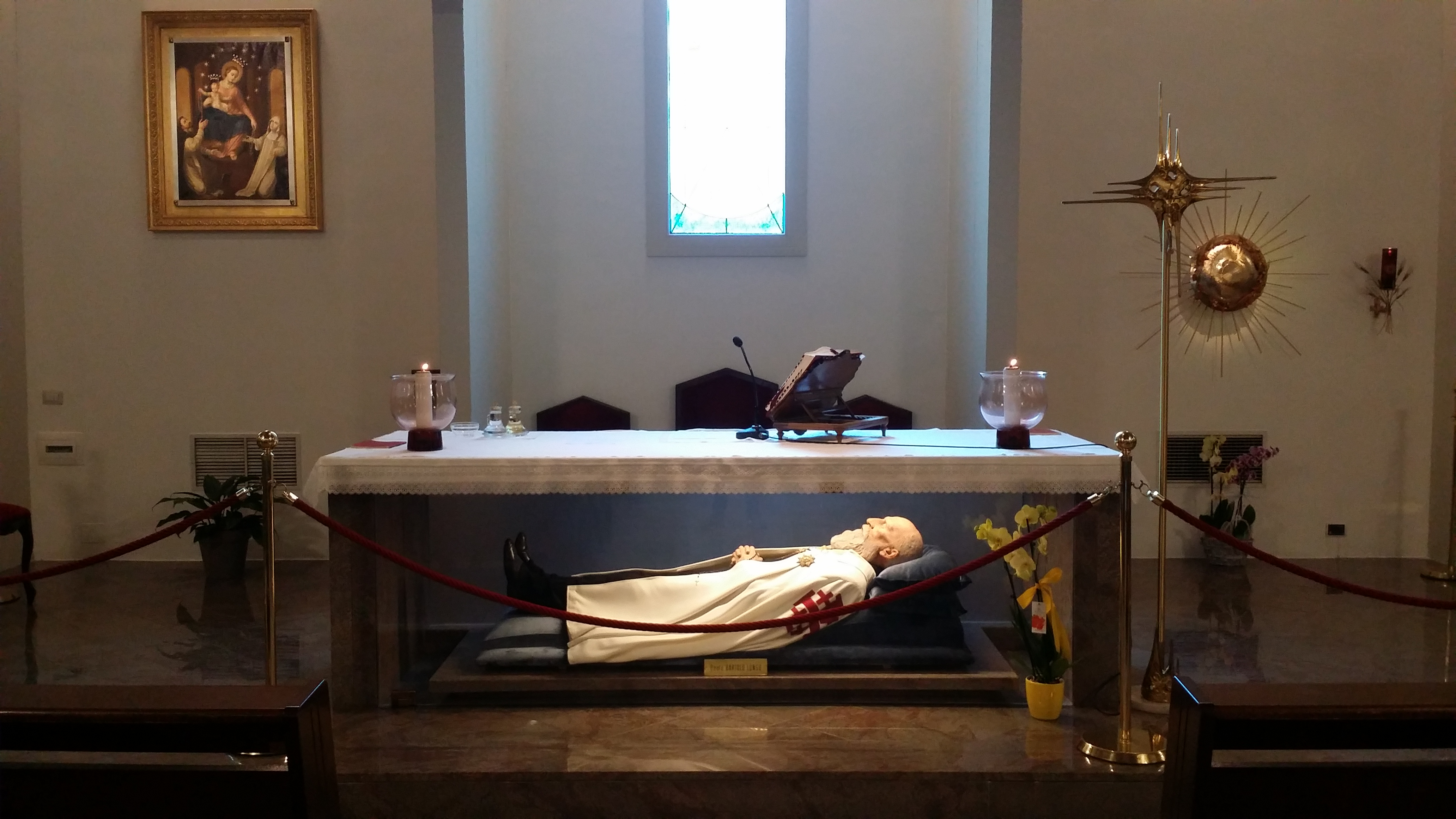 Urn containing the body of the blessed Bartolo Longo located in the homologous chapel of the Sanctuary of the Blessed Virgin of the Rosary of Pompeii